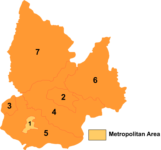 Map of Tieling in Liaoning province